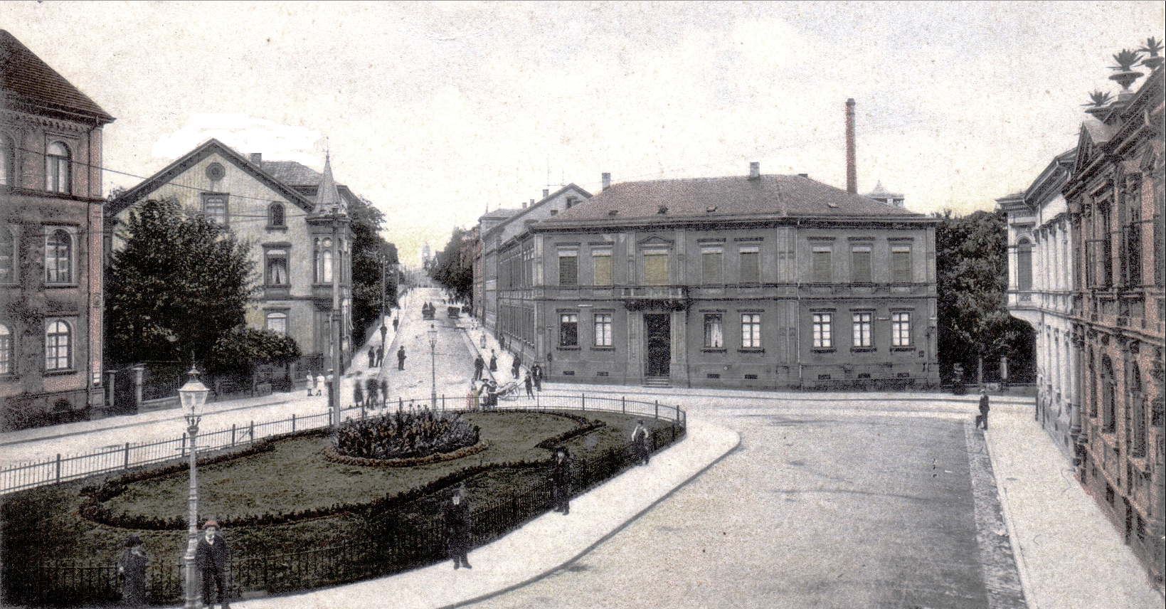 Der Luisenplatz in Pforzheim um 1900